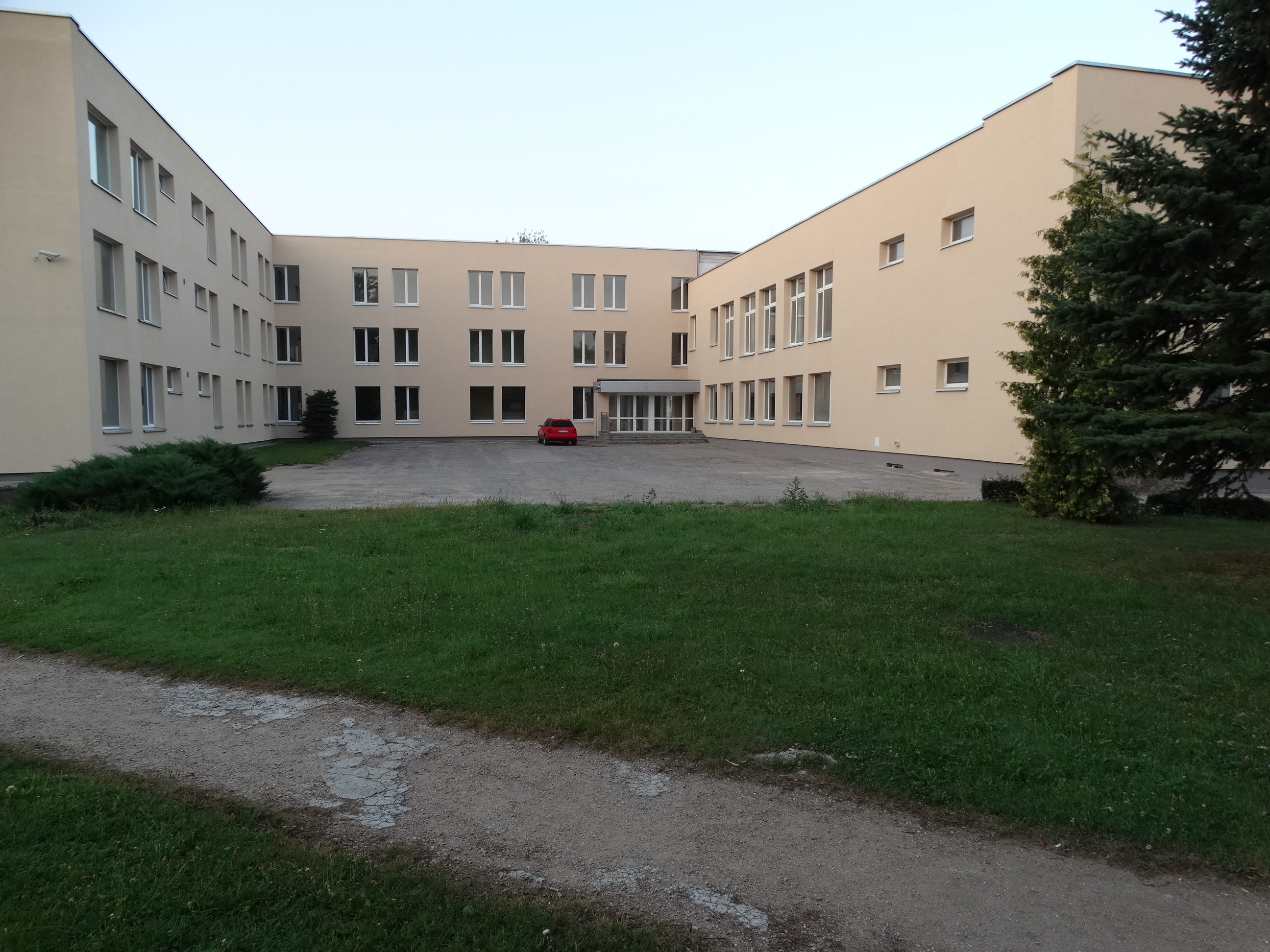 Adult and youth training center, Rokiškis, Lithuania